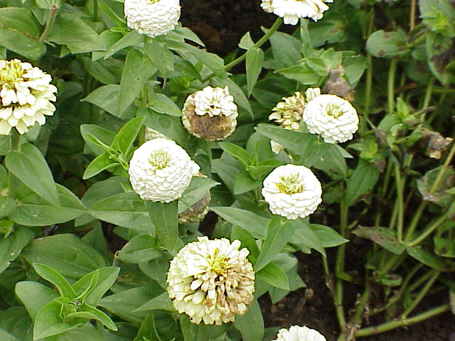 Species: Zinnia elegans Family: Compositae Image No. 2